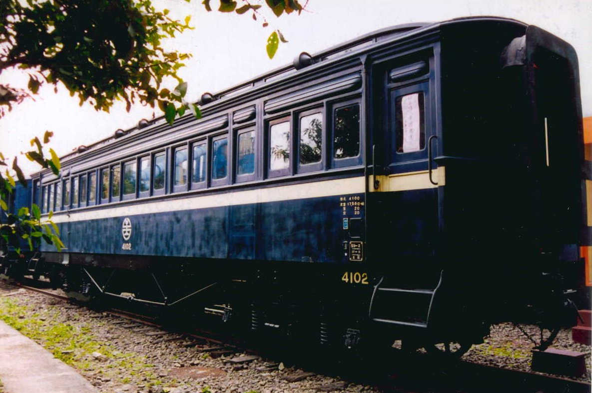 photo by lin & winertai 攝影自台北檢車段 TAIWAN RAILWAY CAN 台灣總督專車 I ,the author 攝於台灣